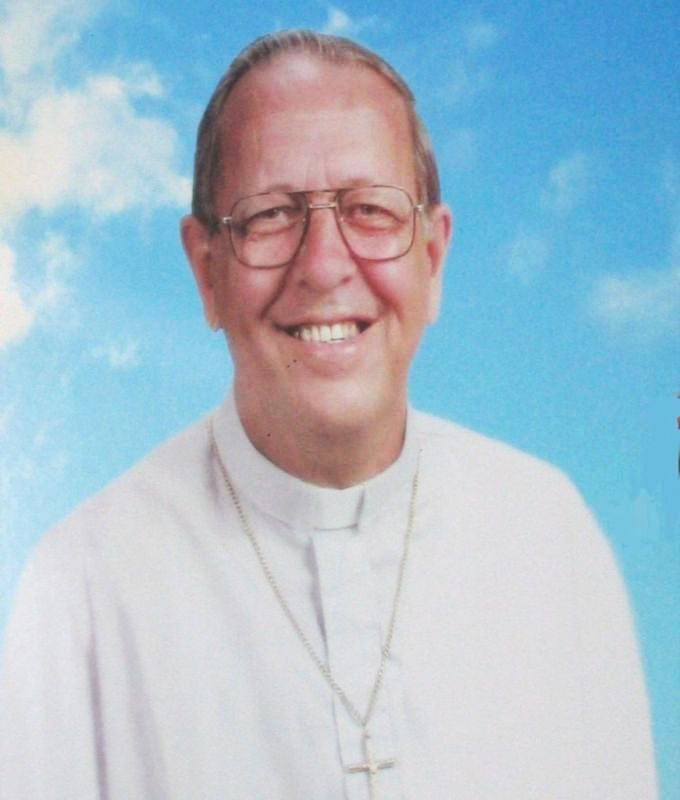 father Emiliano Tardif